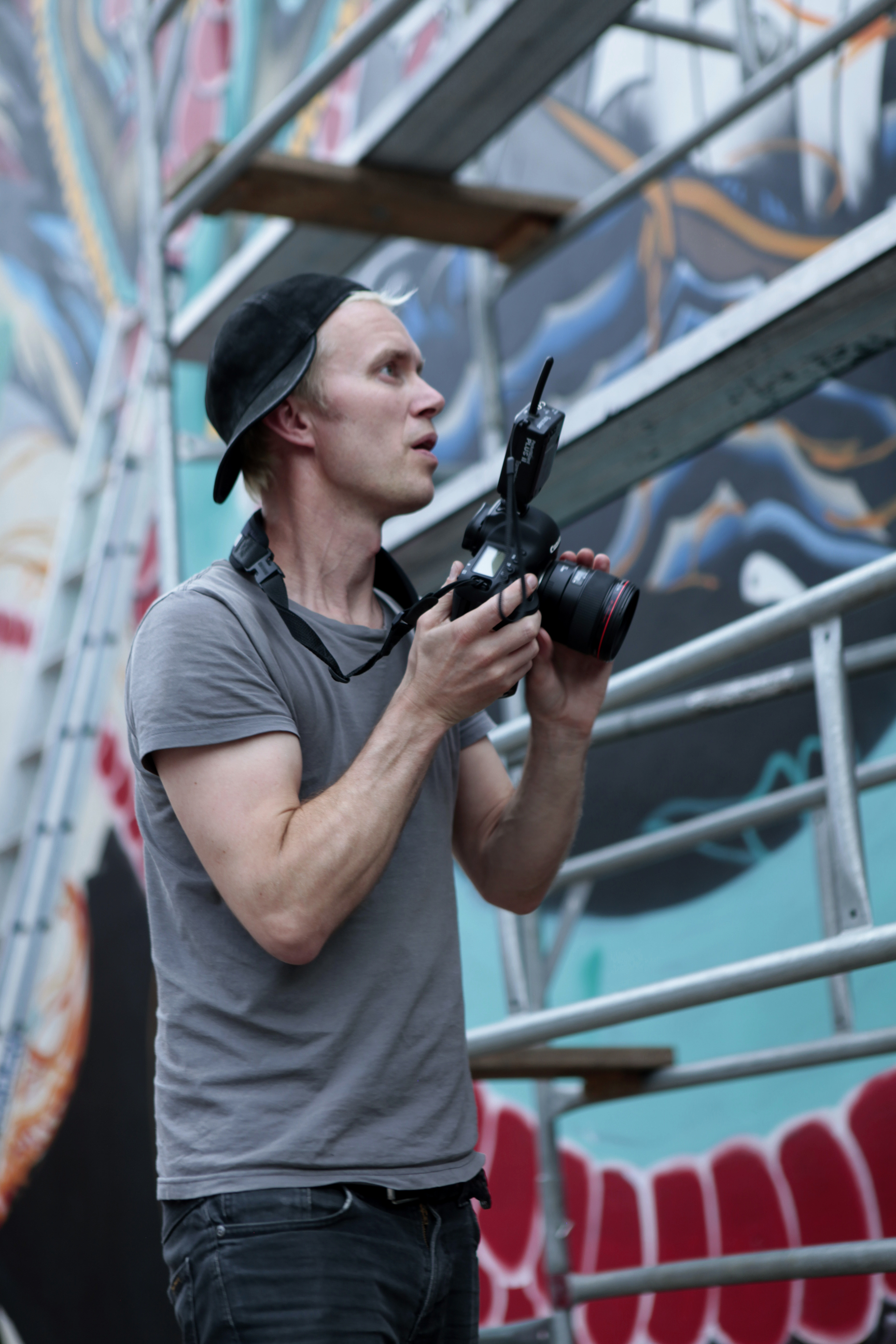 This photo of Danish photographer Søren Solkær Starbird was taken as he captured one of the most prolific Australian street artists, Meggs, for his new project D.O.T.S. - Depending On The Streets, which is portraits of artists working in the public space. I want to use the photo in the wikipedia article on Søren Solkær Starbird.